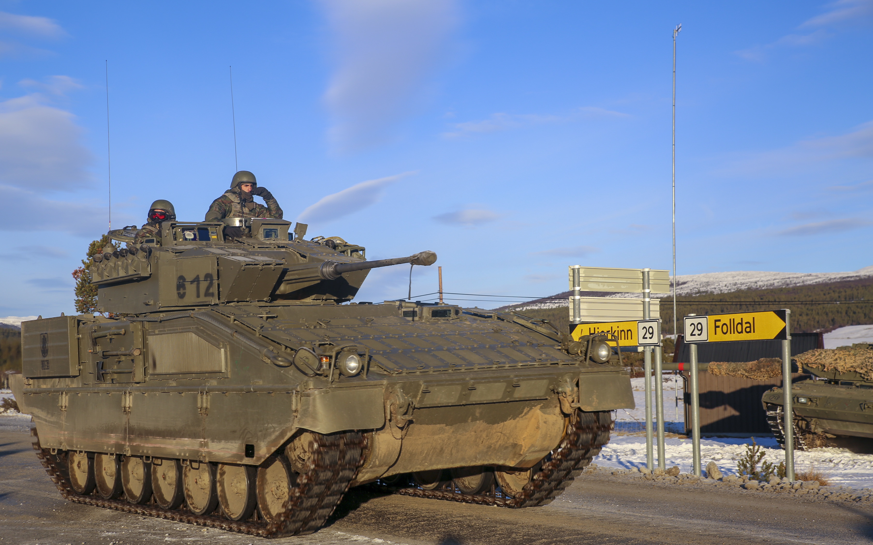 Spanish forces participating in Exercise Trident Juncture 18 hold a defensive position against U.S. Marines with 2nd Tank Battalion, 2D Marine Division, near Dalholen, Norway, Nov. 3, 2018. Trident Juncture 18 enhances the U.S. and NATO Allies’ and partners’ abilities to work together collectively to conduct military operations under challenging conditions. (U.S. Marine Corps photo by Sgt. Averi Coppa/Released)